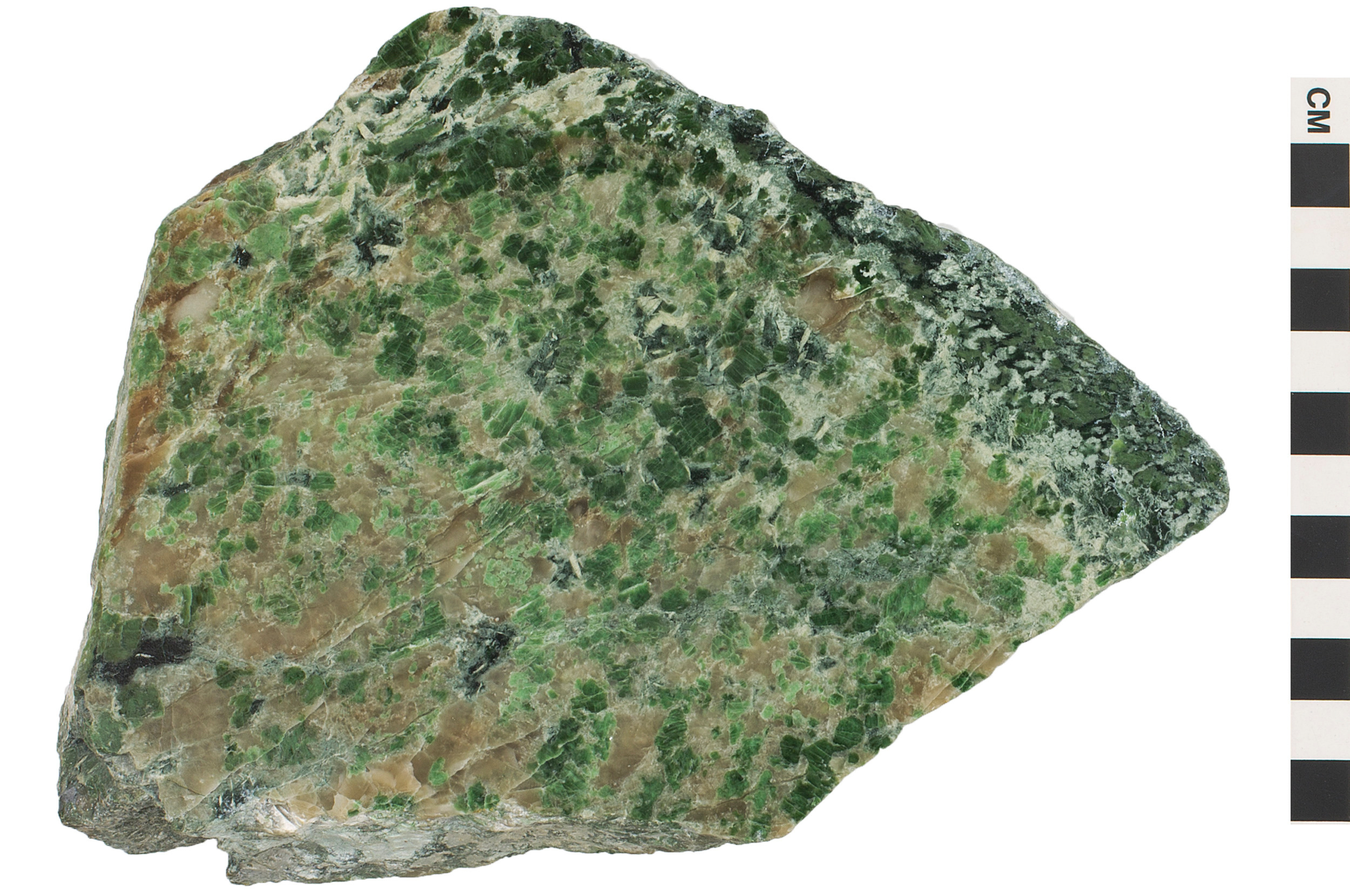 Rodingite from Rockville Crushed Stone Quarry, Montgomery County, Maryland in the United States.